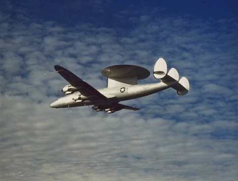 The Lockheed WV-2E Warning Star (BuNo 126512, c/n 1049A-4301) modified with the radar in a rotodome above the aircraft. This aircraft was retired to NAF Litchfield Park, Arizona (USA), for storage on 5 June 1962. However, it was redesignated EC-121L in November 1962 and scrapped on 18 Feburay 1965.